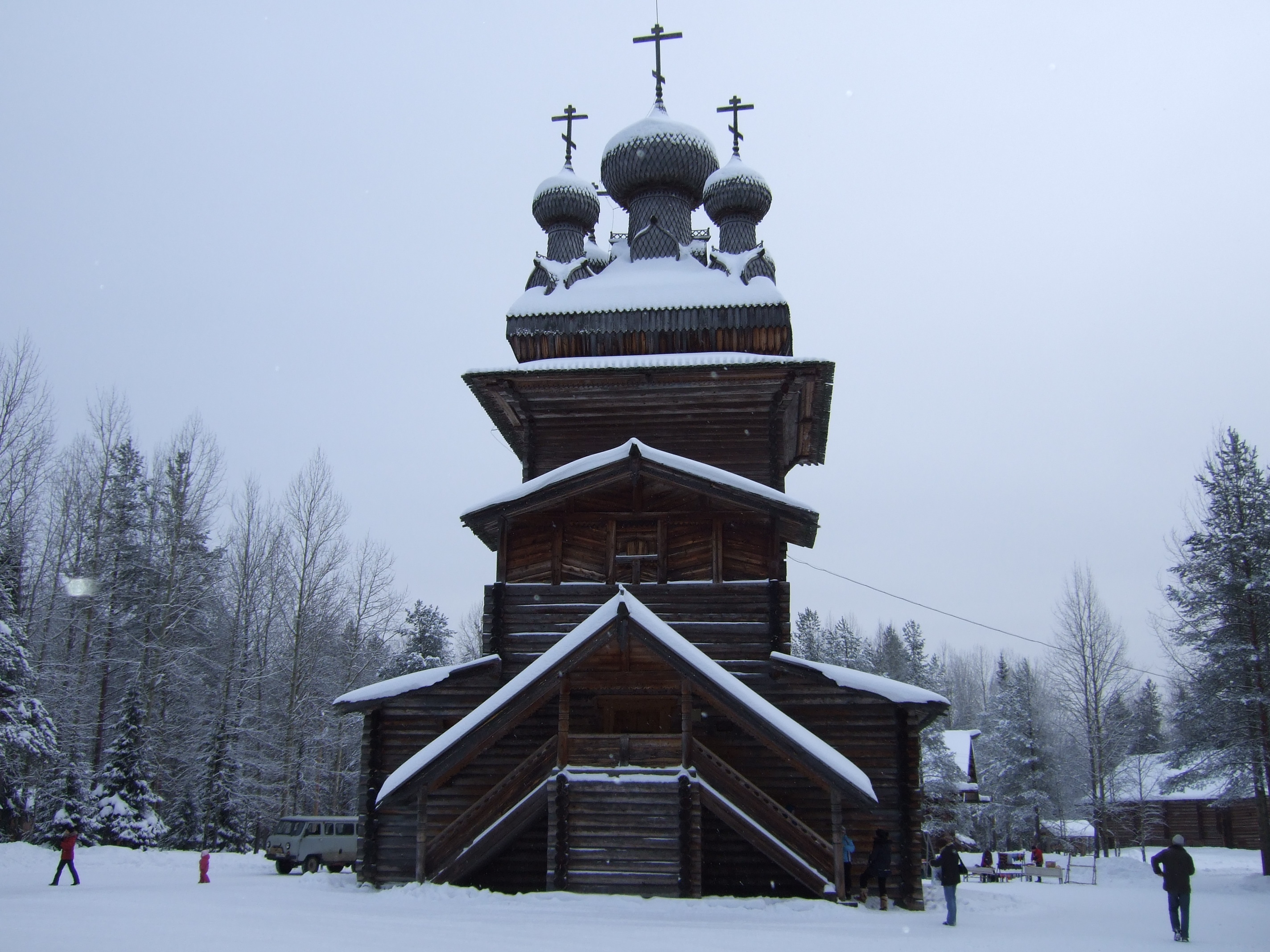 Wooden church at Malyje Korely, near Archangelsk, Russia